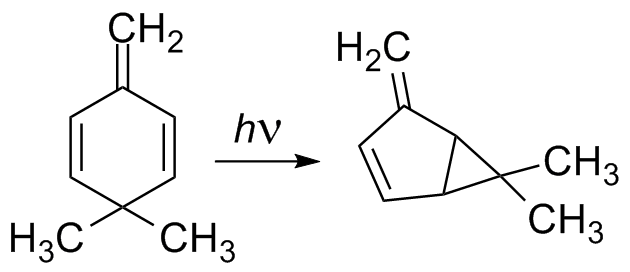 The di-π-methane_rearrangement of 3,3-dimethyl-6-methylenecyclohexa-1,4-diene